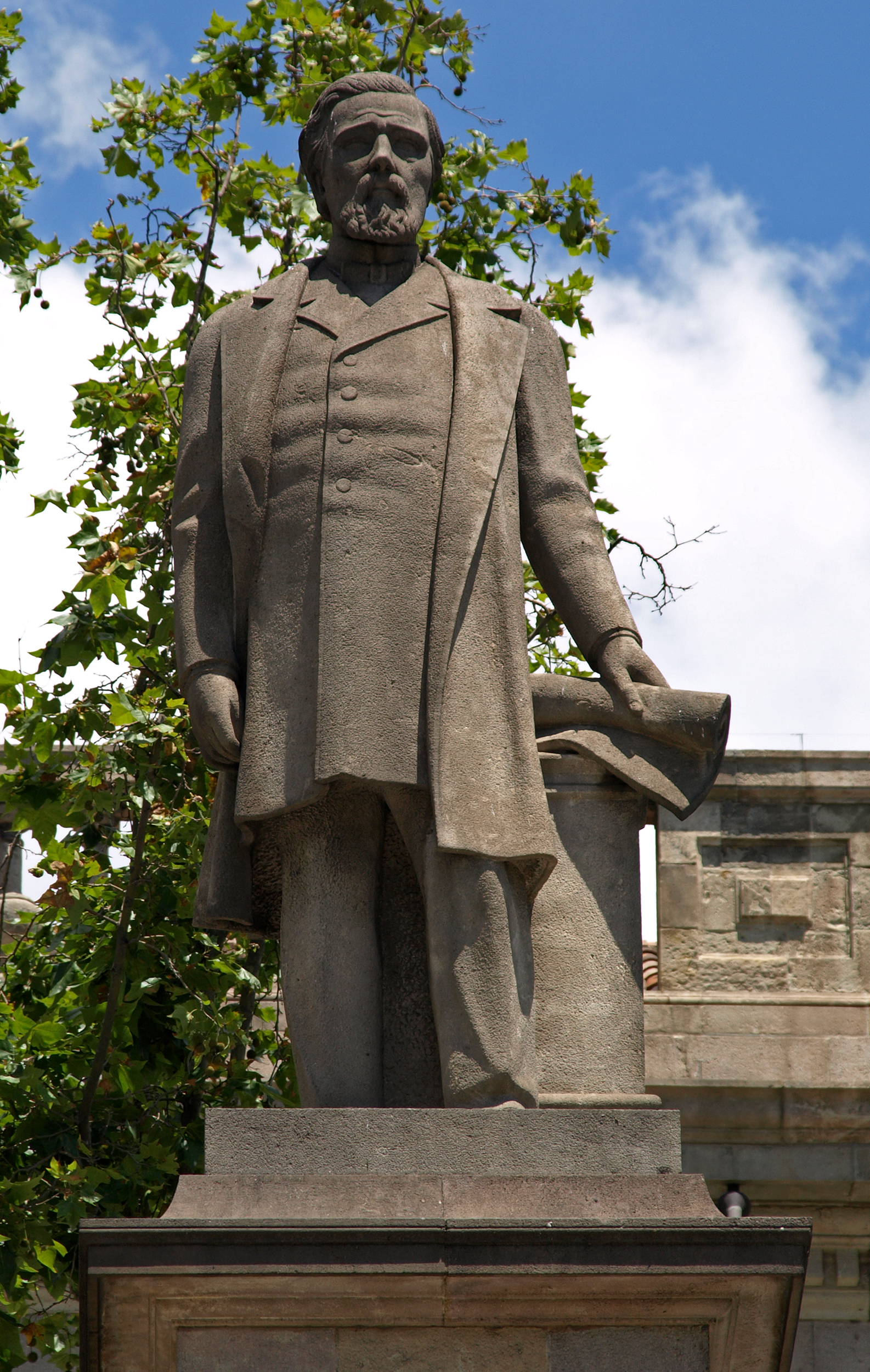 A Lopez Lopez also known as El Negro Domingo, is a sculpture created in 1884 by several prominent artists as Rossend Nob, Joan Roig i Solé, Francesc Pagès i Serratosa, and Lluís Puiggener Venanci Vallmitjana i Barbany. It's located in Barcelona, Spain. The current statue was sculpted in 1940s by Frederic Mares